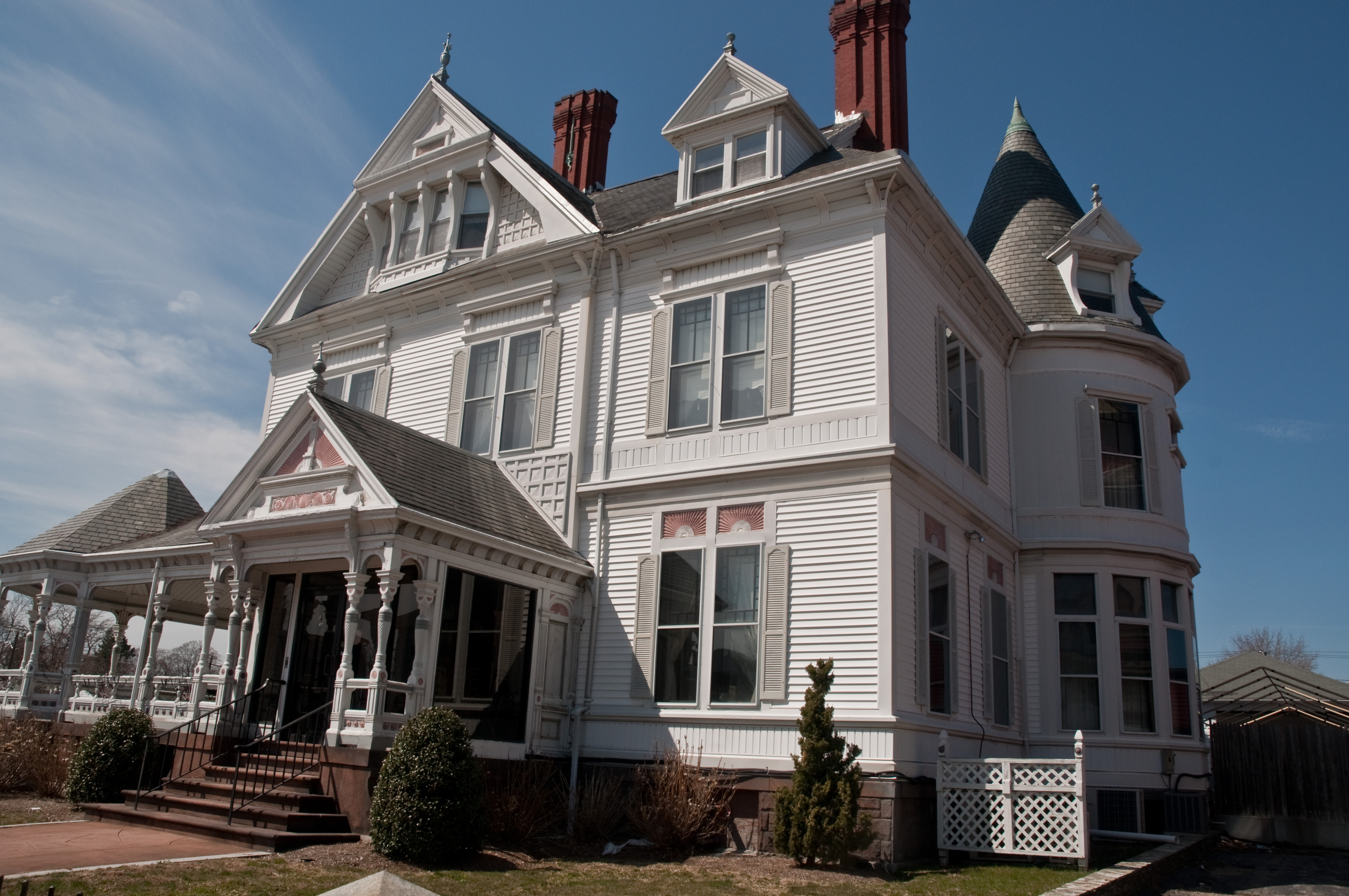 Providence, Rhode Island, 9 April 2011